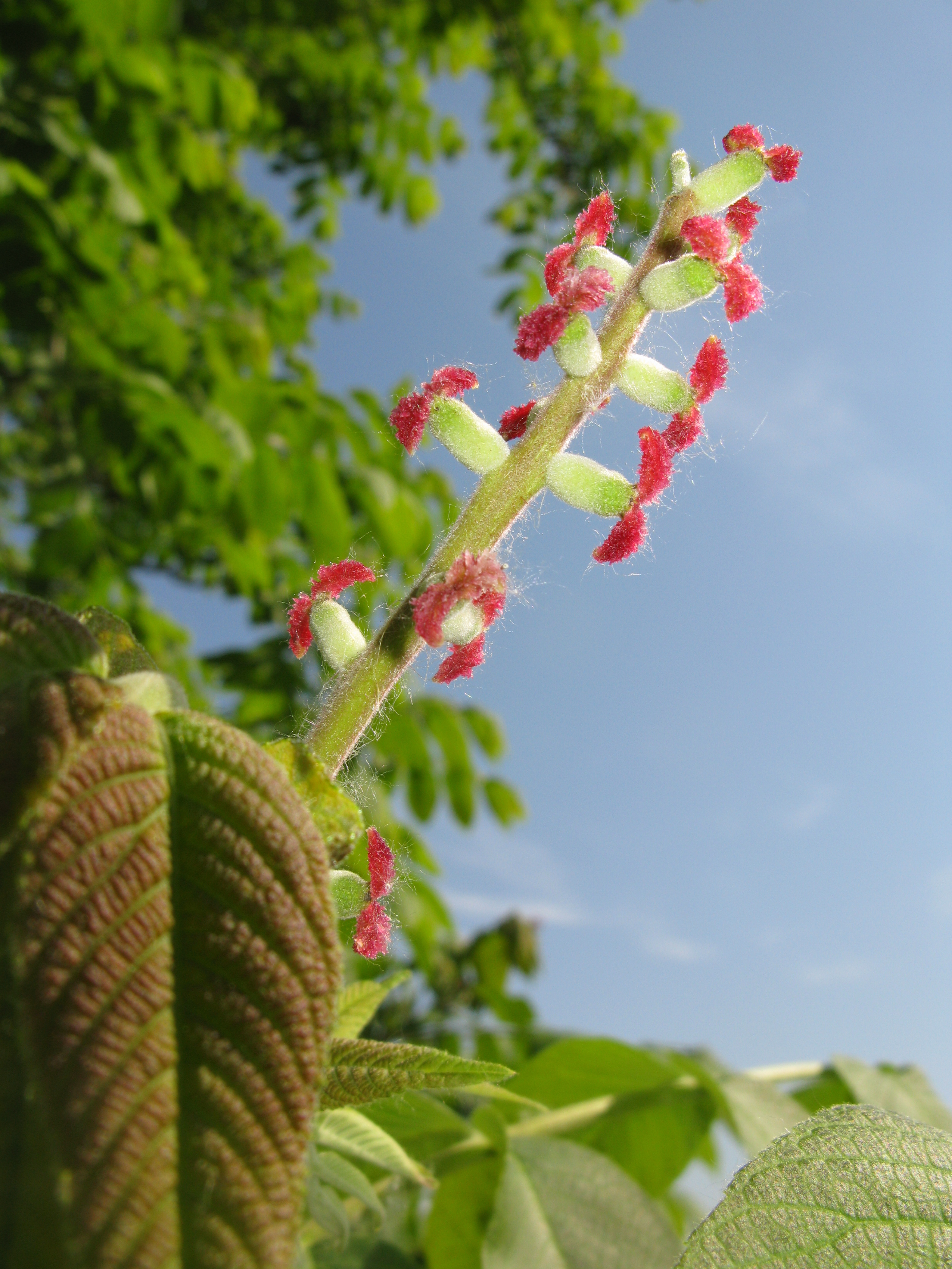 Juglans mandshurica var. sieboldiana,Female flower,Aizu area,Fukushima pref.,Japan